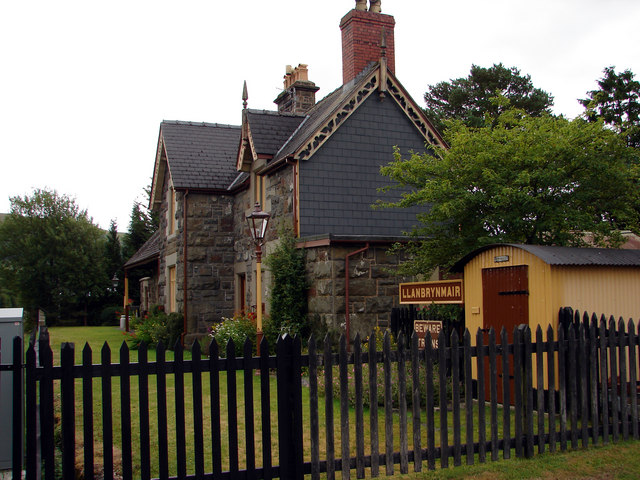 Llanbrynmair Station, Cambrian Railway, near to Llanbrynmair, Powys, Great Britain. Closed in the 1960's, the station is now in private hands but very well preserved.